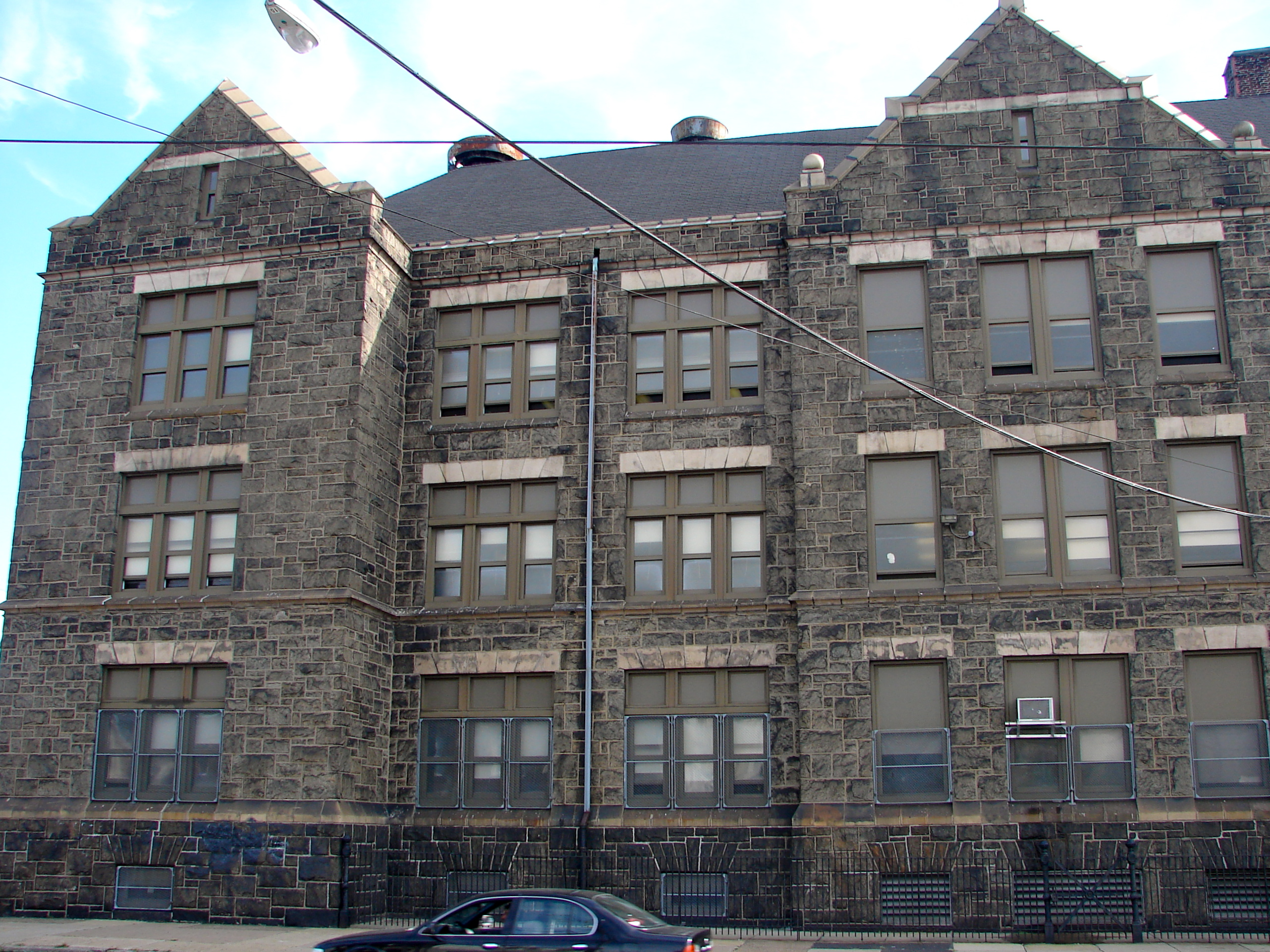 George L. Horn School in Philadelphia on the NRHP since December 4, 1986. At Frankford and Castor Avenues in the NE Philly neighborhood of Richmond.